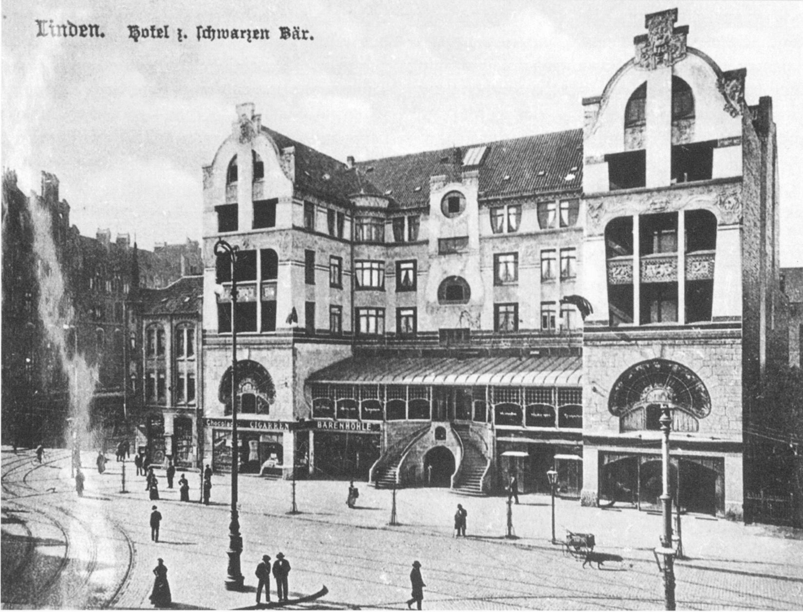 Hotel in Linden, Hannover, Germany.